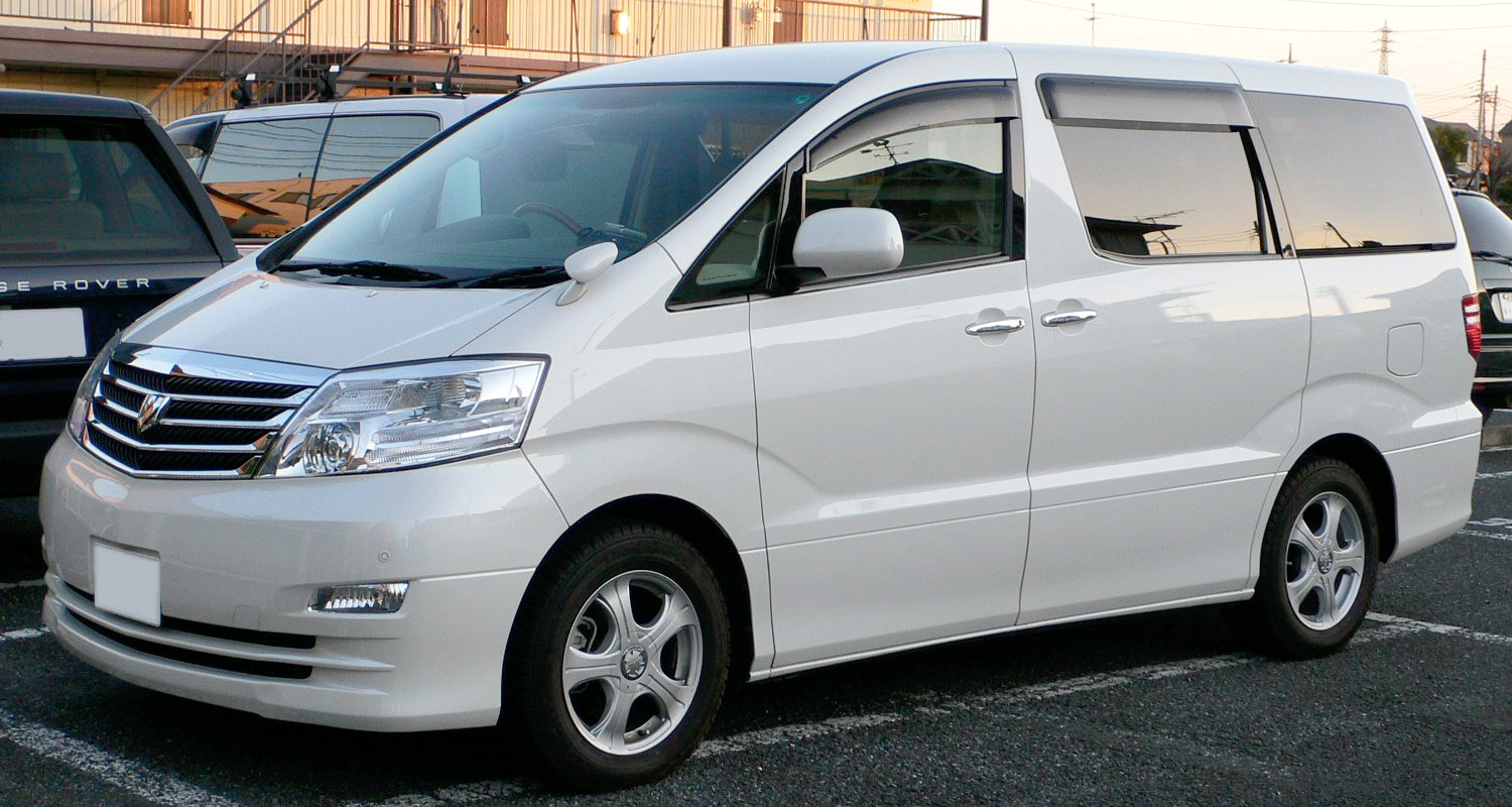 Toyota Alphard (2005)